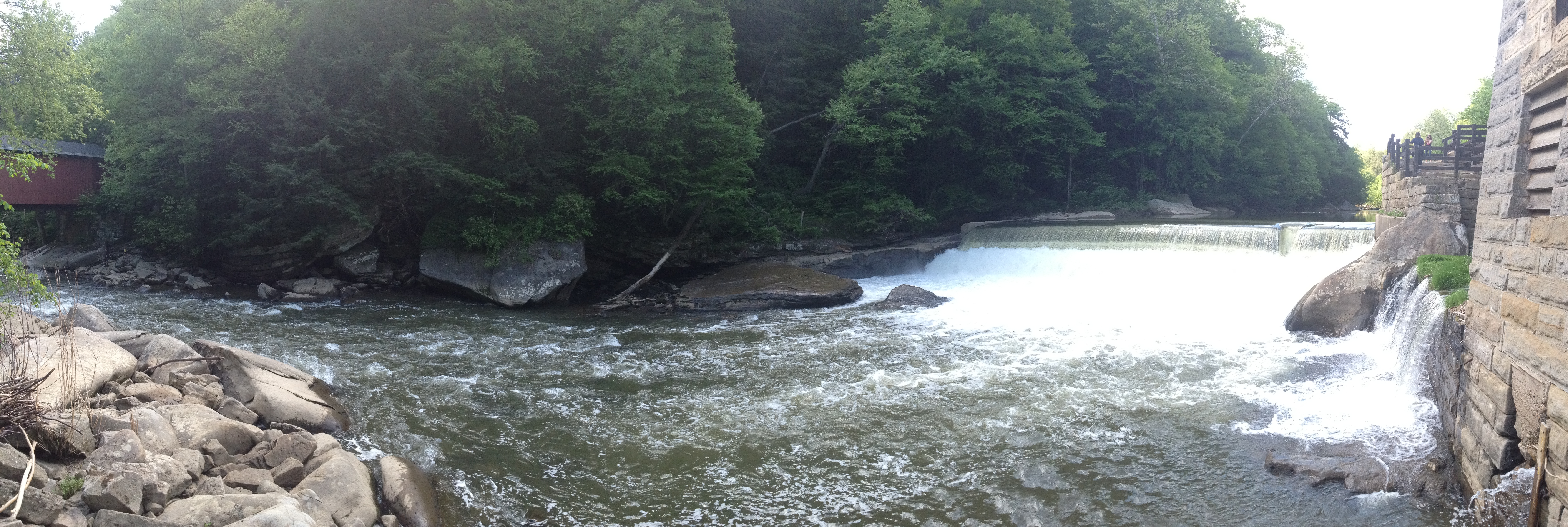 A panorama of the waterfall and Slippery Rock Creek next to the mill at McConnells Mill State Park in Pennsylvania, United States. The McConnell's Mill Covered Bridge is visible on the far left.